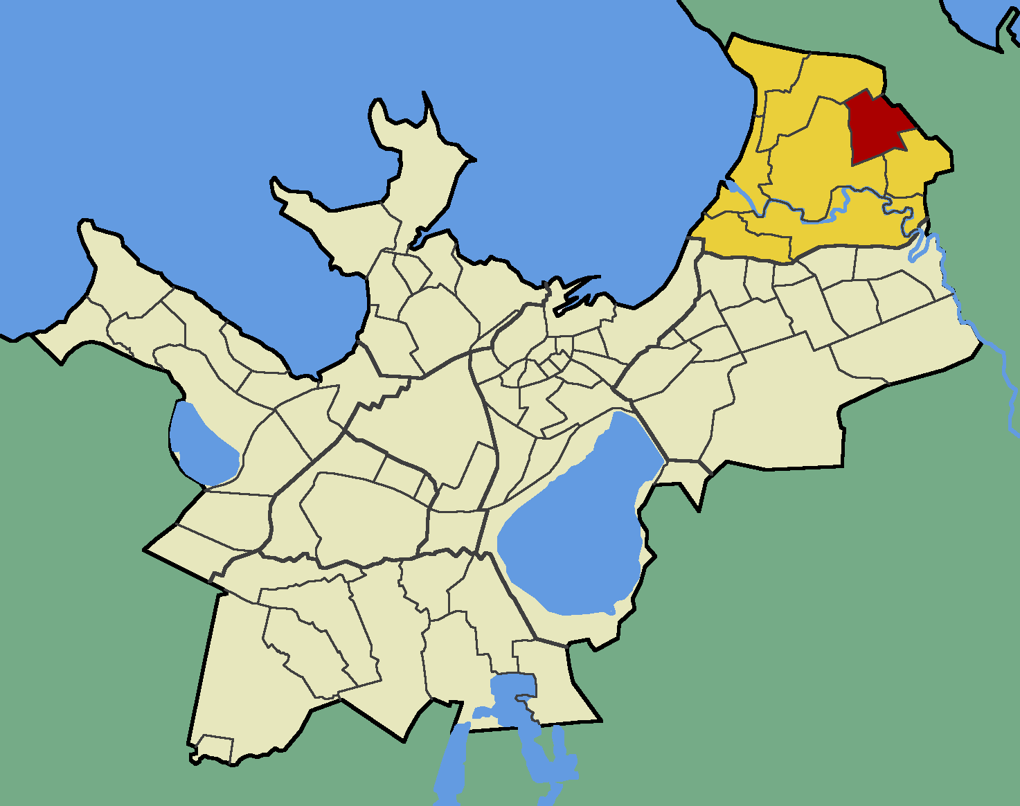 Map of Tallinn (Estonia) with borders of the quarters, Pirita district and Lepiku quarter emphasised